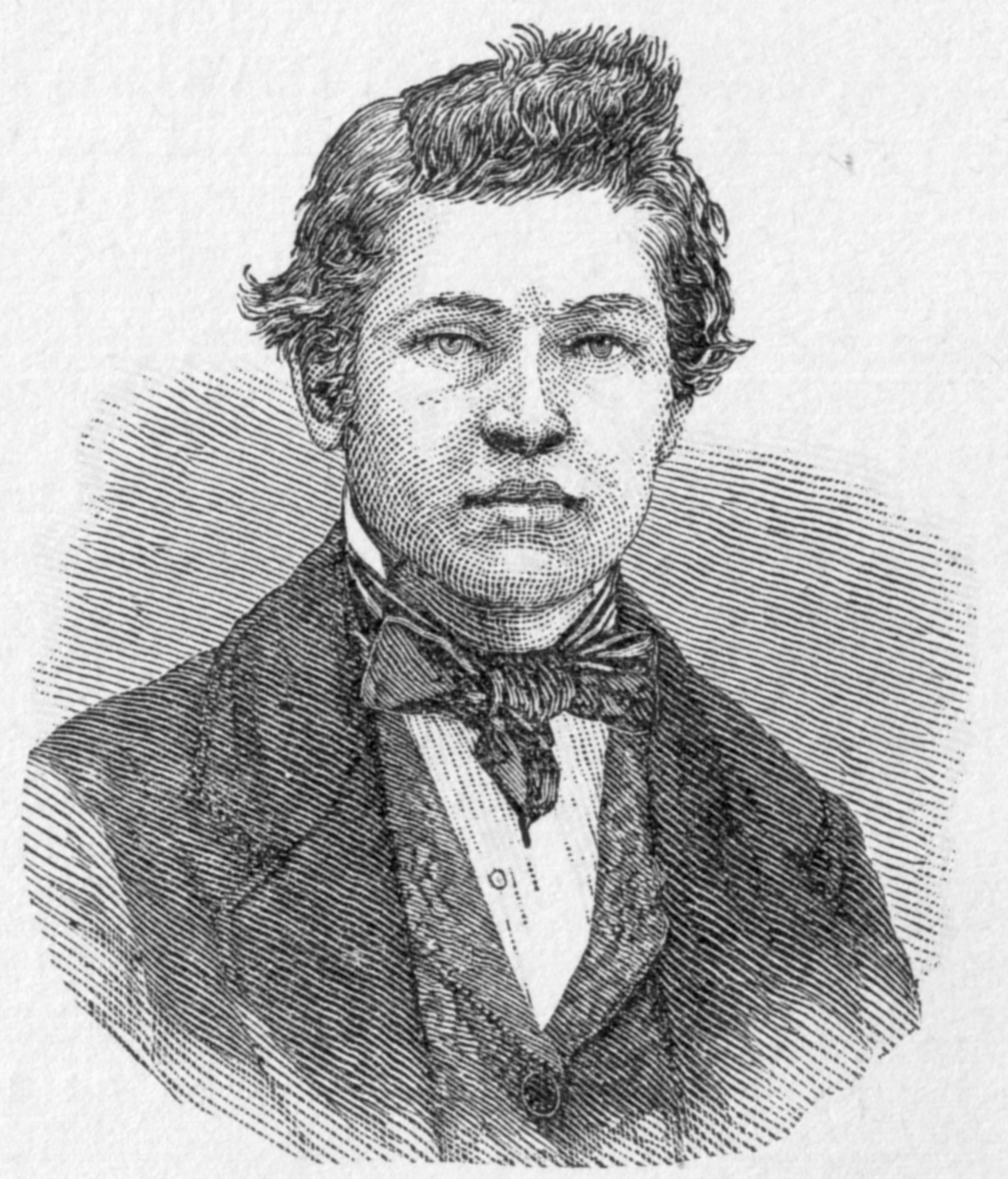 Drawing of future United States President James Garfield, at the age of 16.